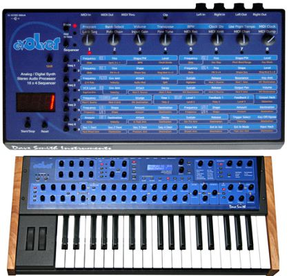 I created this image myself. It is of the Evolver Desktop (top) and the Evolver Keyboard (bottom).